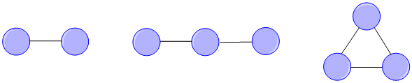 Arrangements of small molecules with few atoms